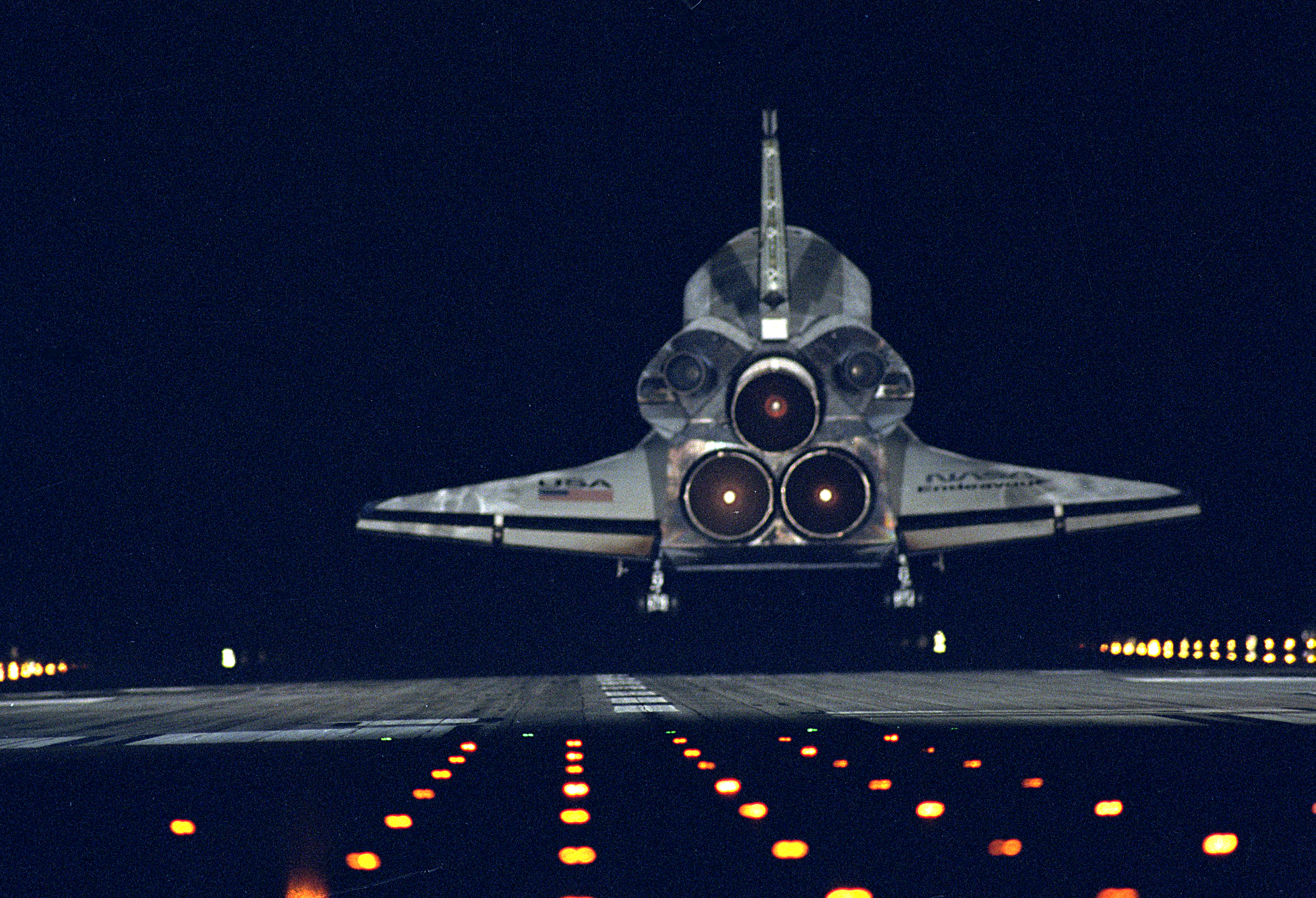 The Space Shuttle orbiter Endeavour and its crew of six glide in to Runway 15 at KSC's Shuttle Landing Facility after spending nine days in space on the STS-72 mission, the first Shuttle flight of 1996. It is the eighth night landing of the Shuttle since the program began in 1981, but only the third night landing at KSC. Highlights of the mission were the retrieval of the Japanese Space Flyer Unit (SFU), the deployment and retrieval of NASA's Office of Aeronauts and Space Techology-Flyer (OAST-Flyer), and two Extravehicular Activities (EVA's) or spacewalks.